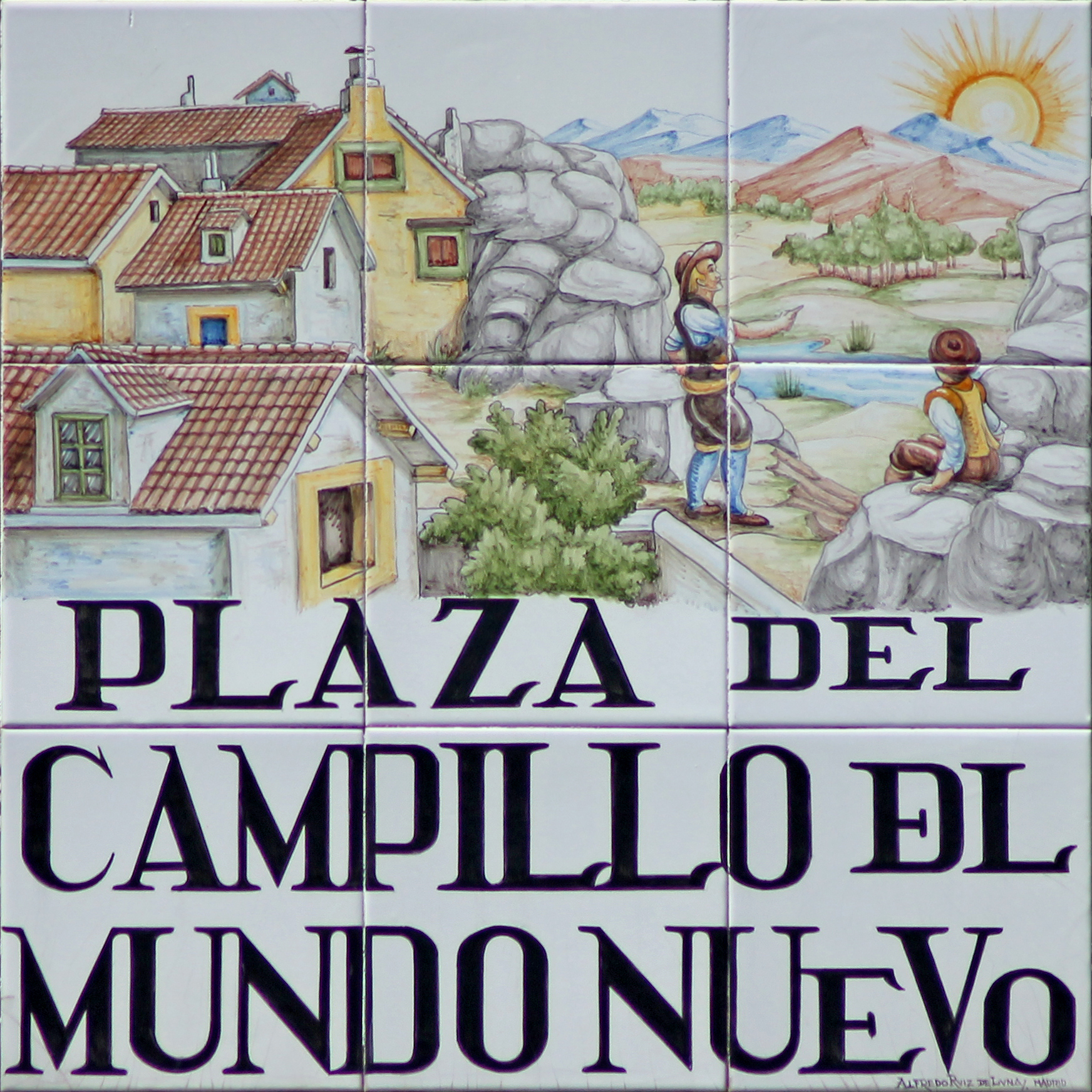 Sign of Plaza del Campillo del Mundo Nuevo (square) in Madrid (Spain).